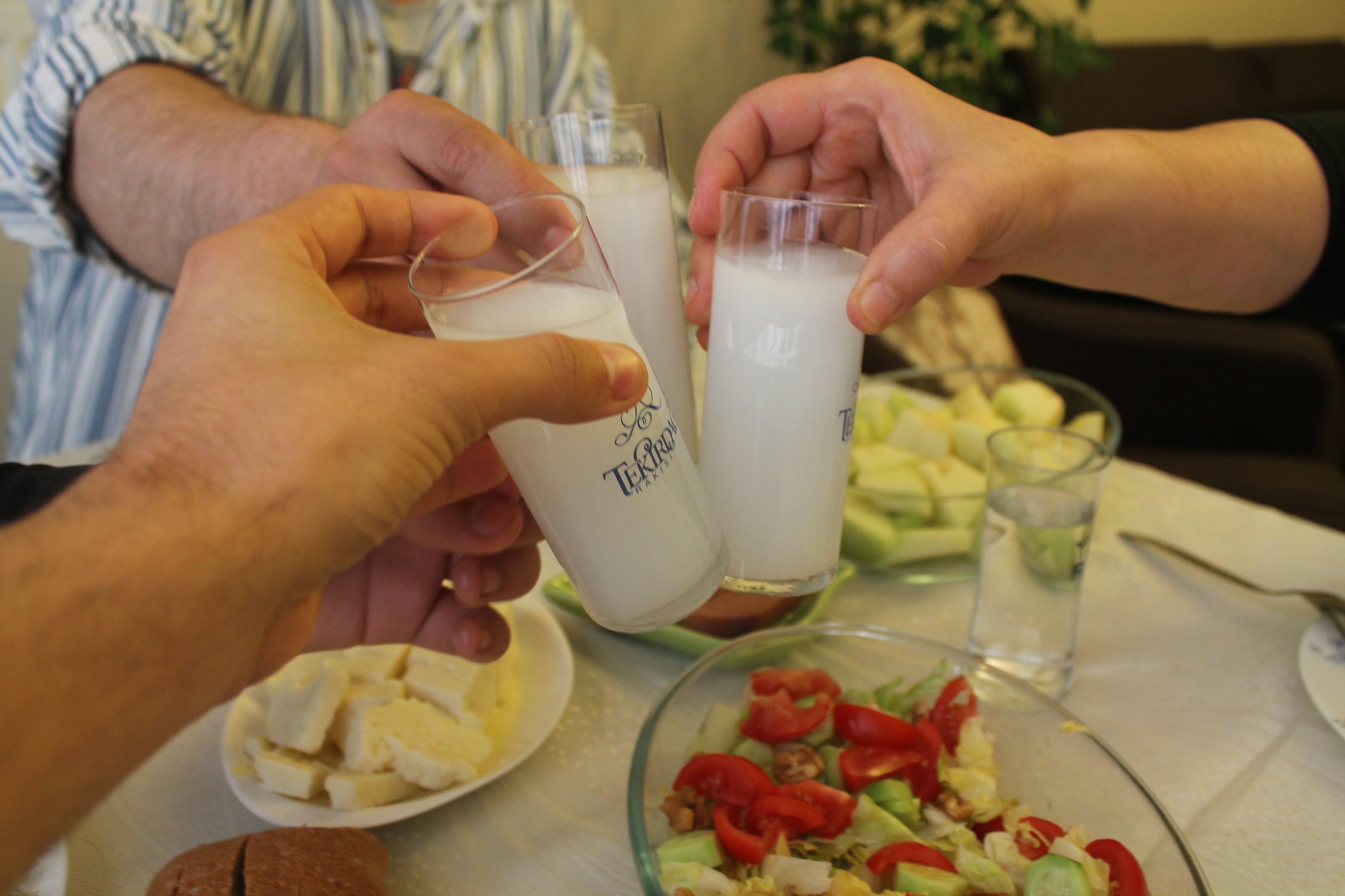 Toasting Rakı between Turkish family